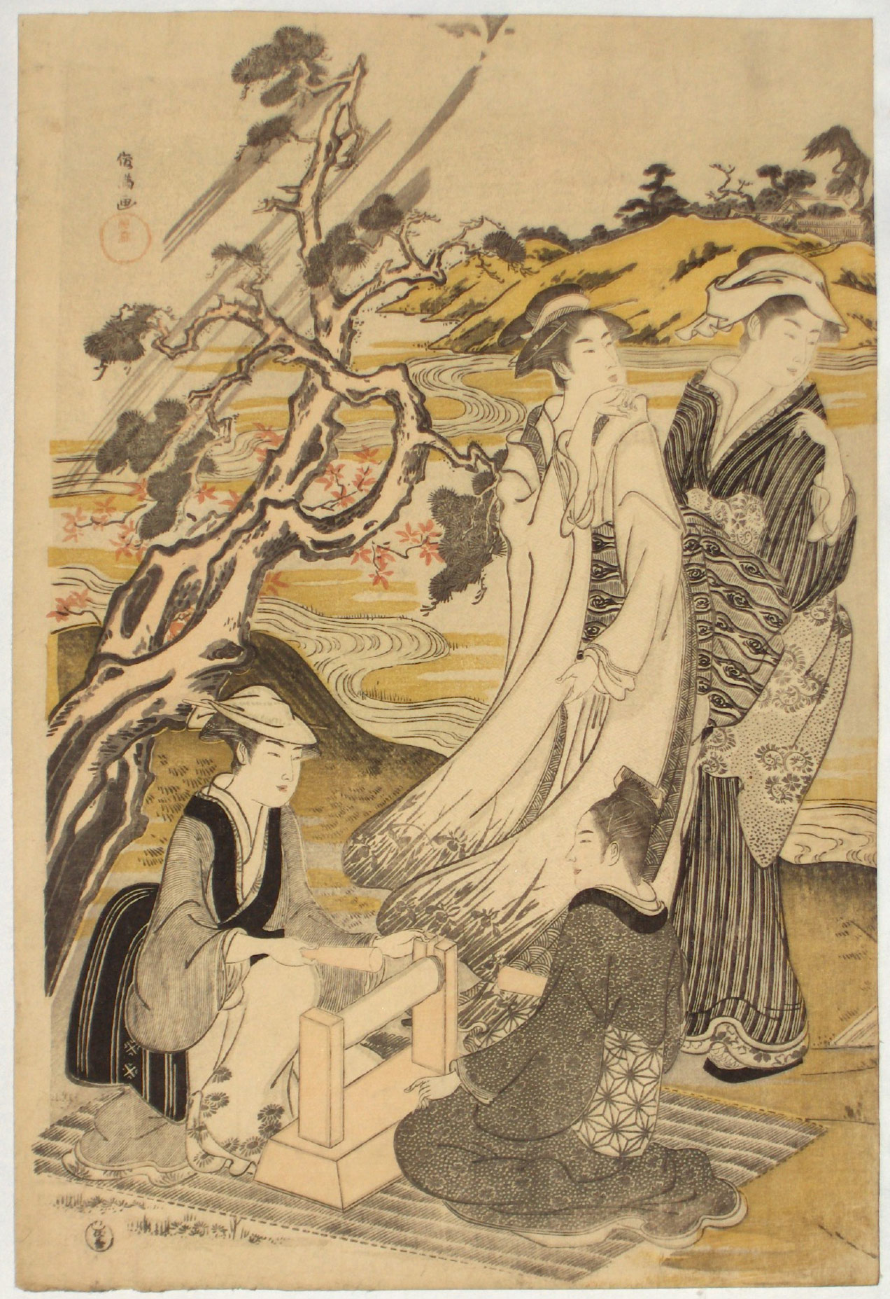 Mishima, or Toi, Province of Settsu. In benigirai style, “red avoiding”. Toi is the name of a river, one of the Six Crystal (Tama) Rivers, but signifies also fulling clothes.